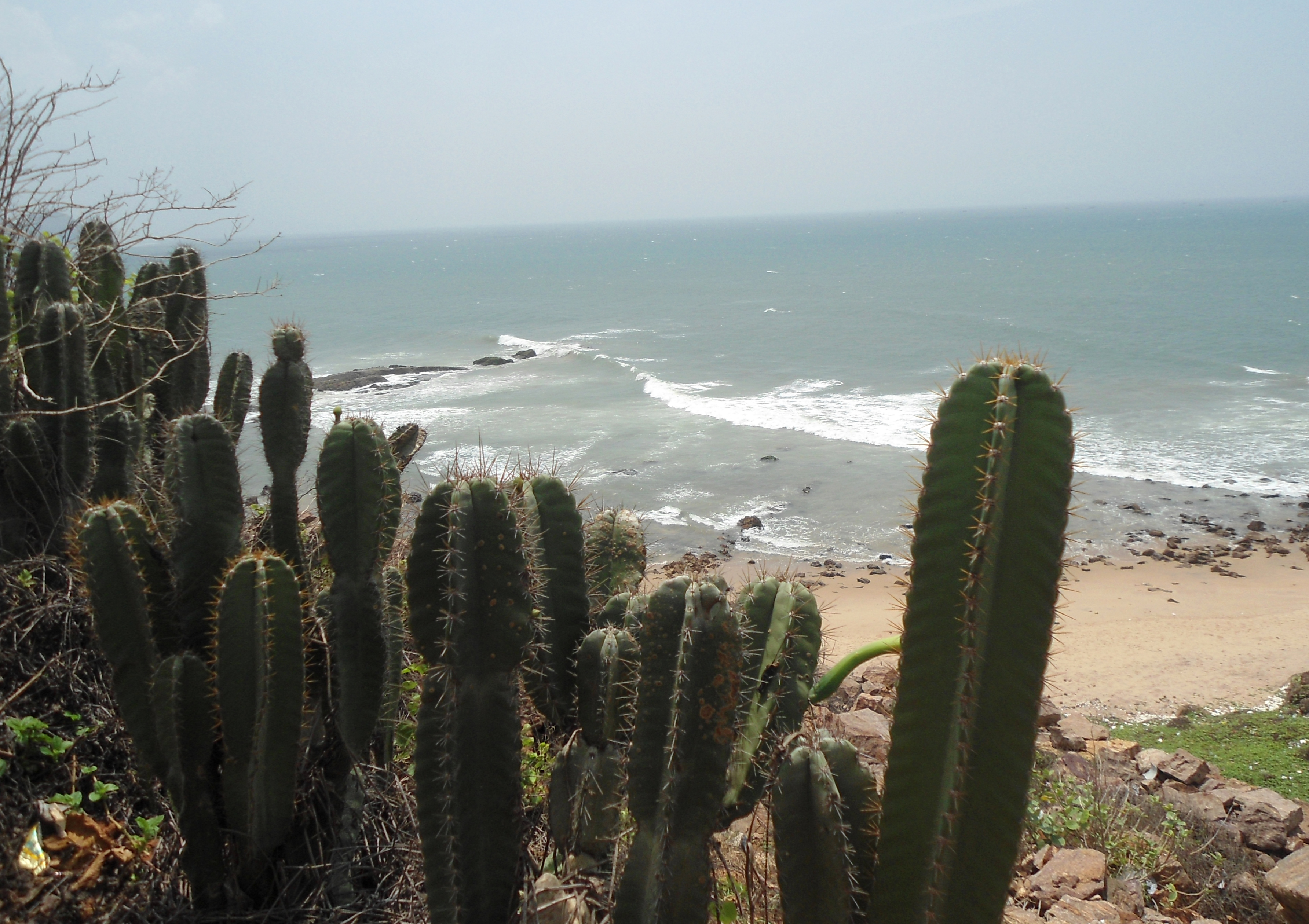 (Cereus hildmannianus) cactus at Tenneti park in Visakhapatnam